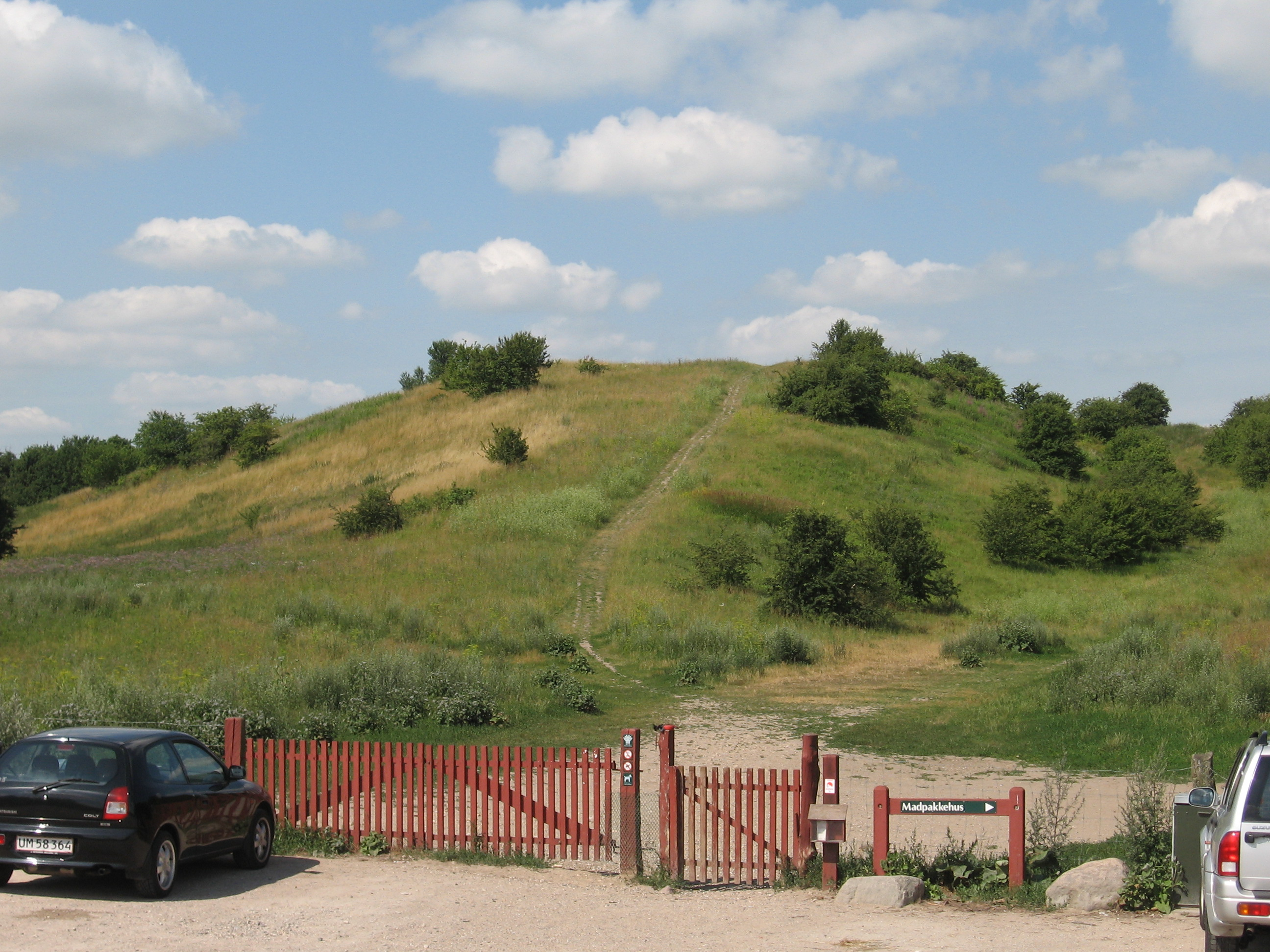 Ox Mountain (Danish: Oxbjerget) is 15 metres high man-made hill in Vestskoven in Denmark. Highest point: 38 m above sea level.